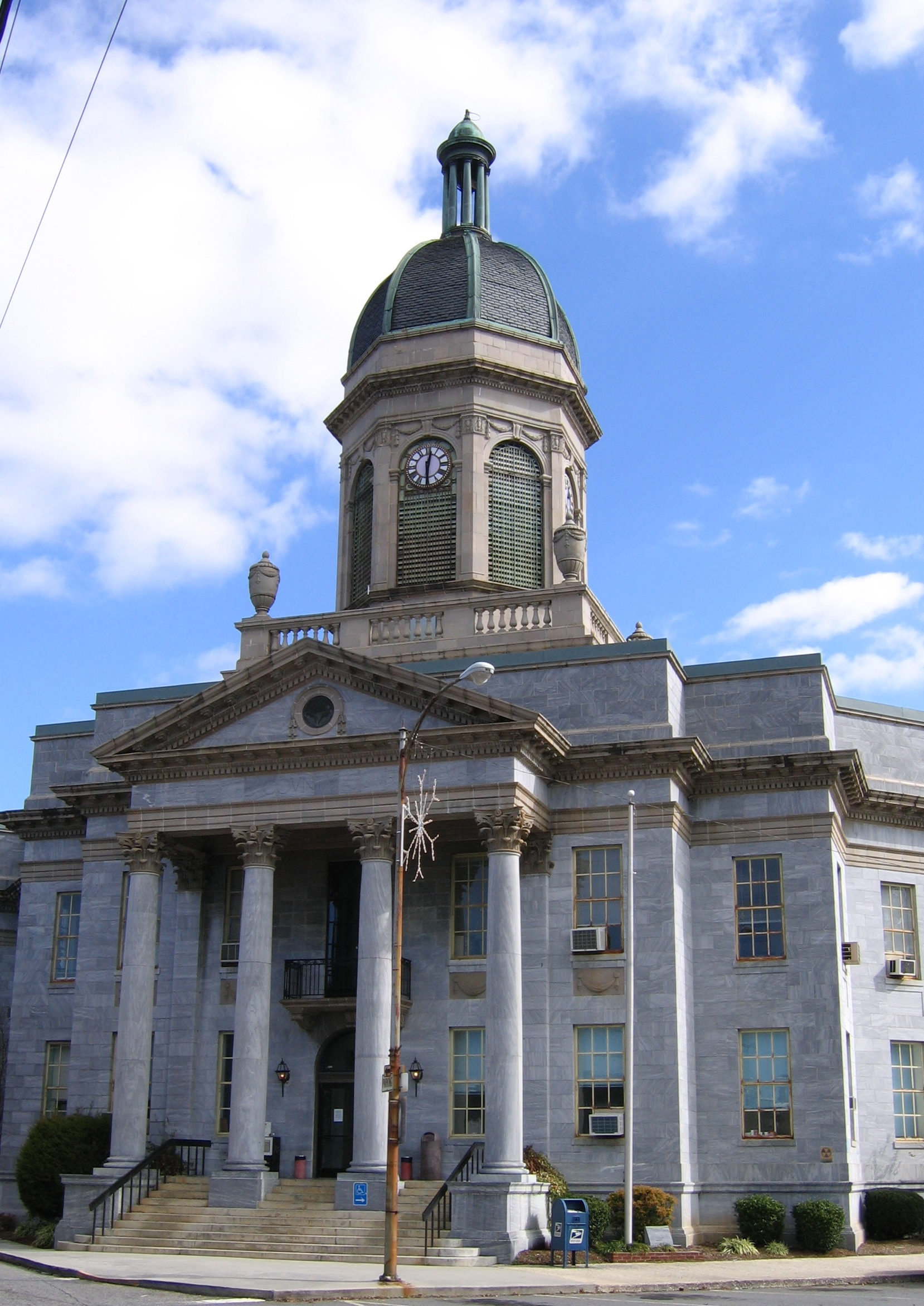 Murphy Courthouse, Cherokee County, North Carolina, USA (BUILT WITH SOLID MARBLE)